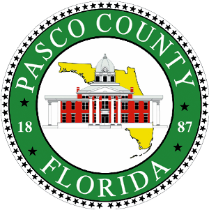 Seal of Pasco County, Florida. This seal was reproduced by me, Jim Slaughter, using CorelDraw.